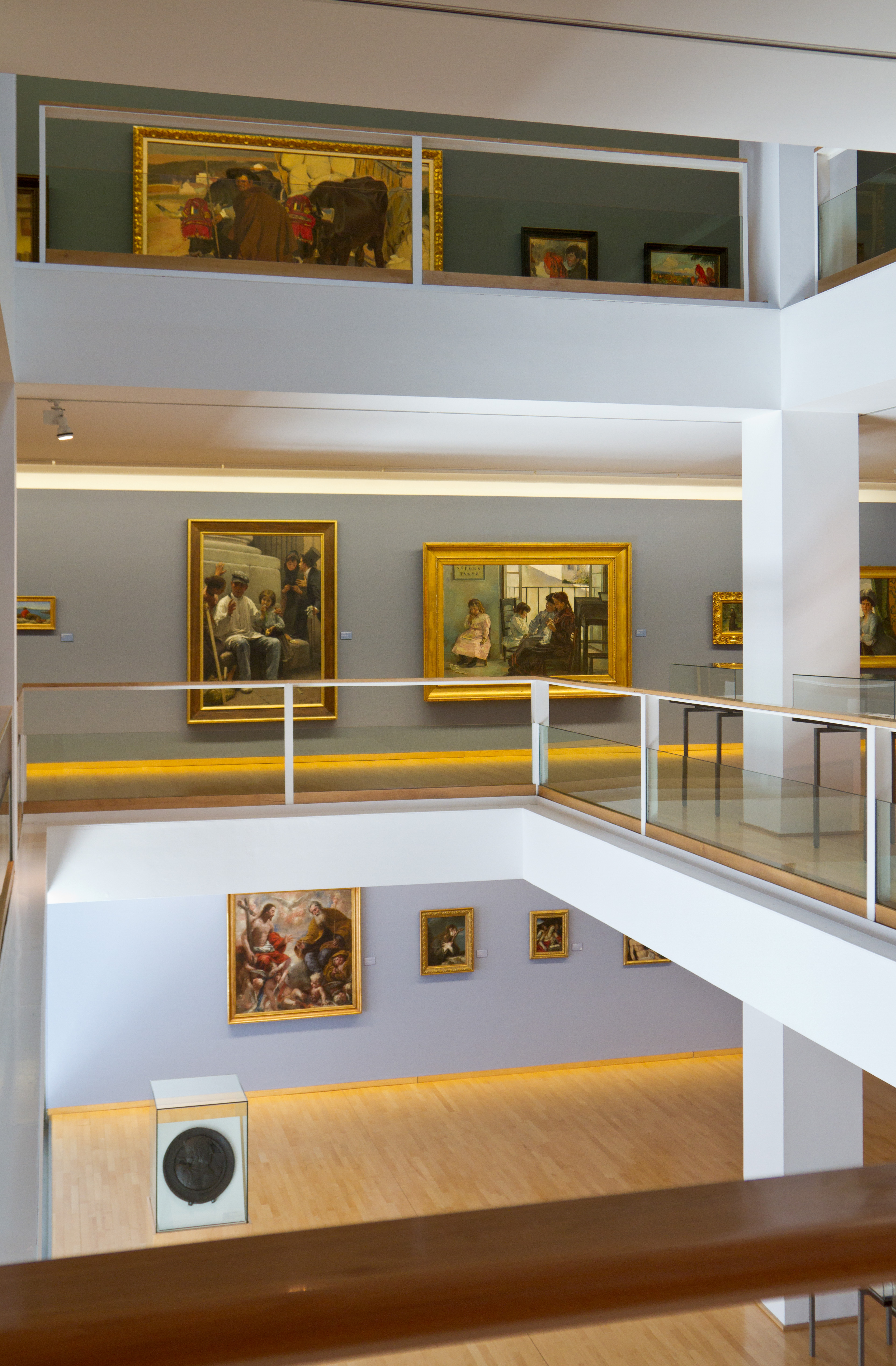 Coruña Fine Arts Museum (Inventory)Native nameMuseo de Belas Artes da CoruñaLocationLa Coruña, Galicia, (Spain)Coordinates43° 22′ 22″ N, 8° 24′ 02.87″ W Established1922Web pageMuseoBelasartesCoruna.Xunta.esAuthority control : Q18327587 VIAF: 129160042 ISNI: 0000 0001 2323 6321 LCCN: n79083460 BIC: RI-51-0001349 GND: 5252616-1 WorldCat institution QS:P195,Q18327587